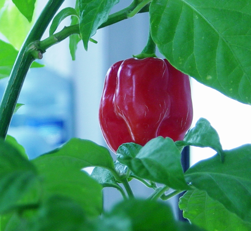 A red savina pepper, on the plant